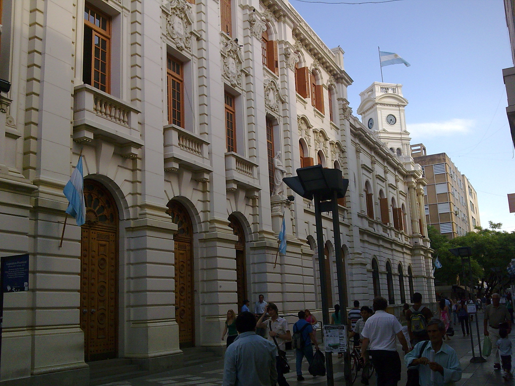 Provincial legislature, downtown Cordoba, Argentina.